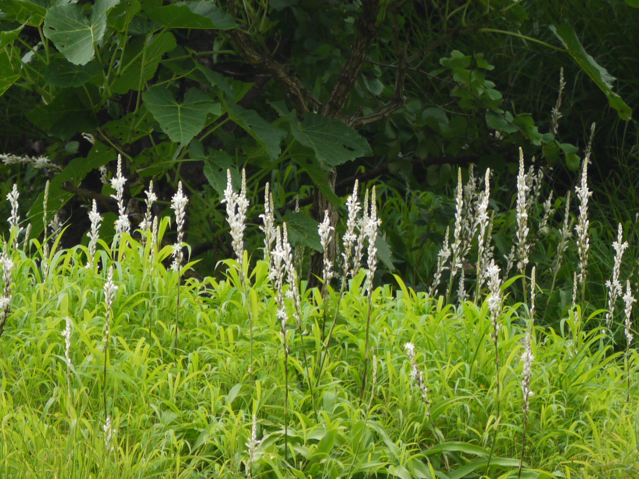 Liliaceae (lily family) » Chlorophytum glaucum kloh-roh-FY-tum -- from the Greek chloros (green), and phyton (plant) GLAW-kum -- bloom has thin powder (like plums) commonly known as: scaly-scaped chlorophytum Endemic to: northern Western Ghats (of India) Reference: Flowers of Sahyadri by Shrikant Ingalhalikar